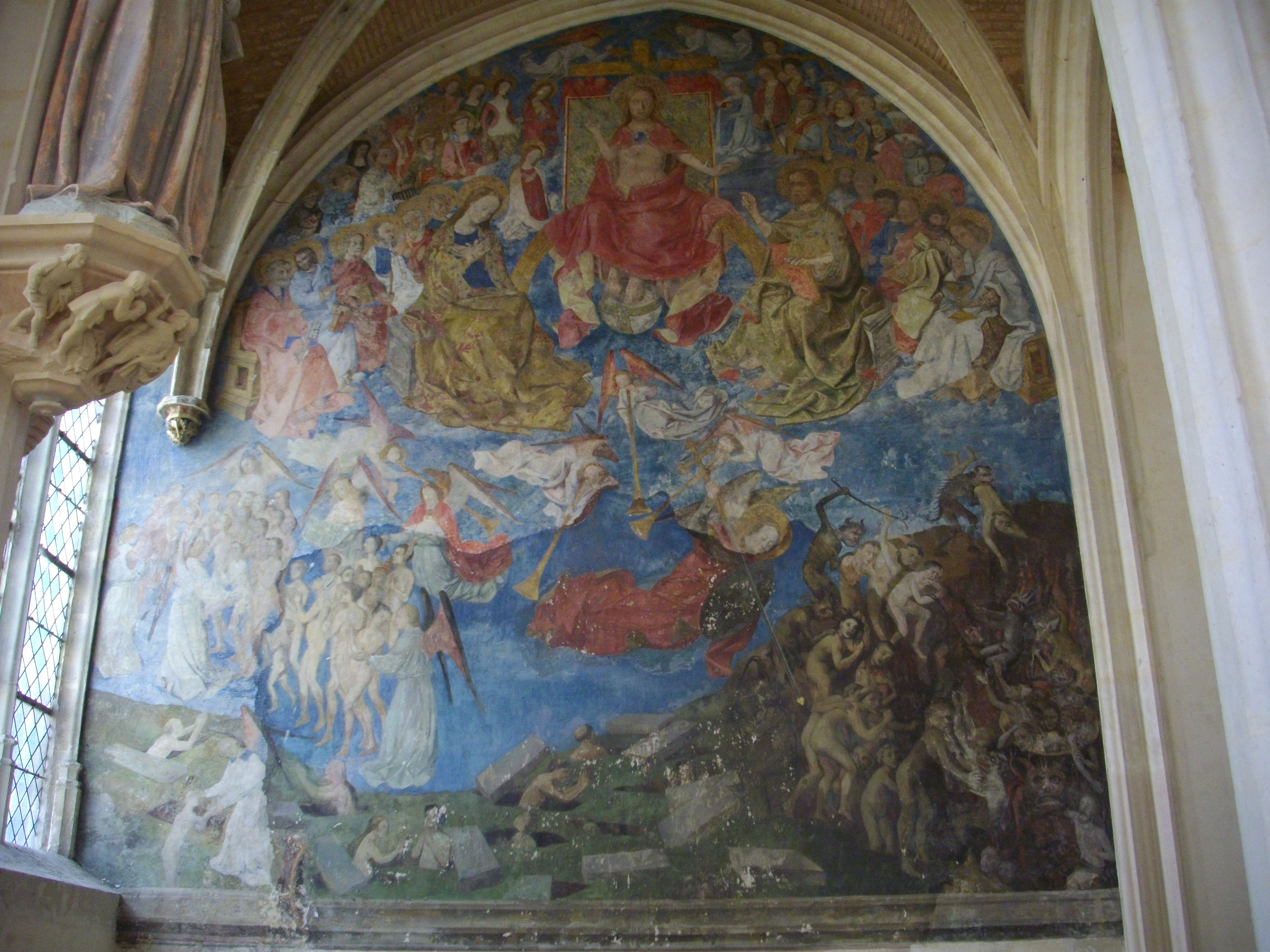 Holy chapel of the castle of Châteaudun (Eure-et-Loir, France) : Last judgement